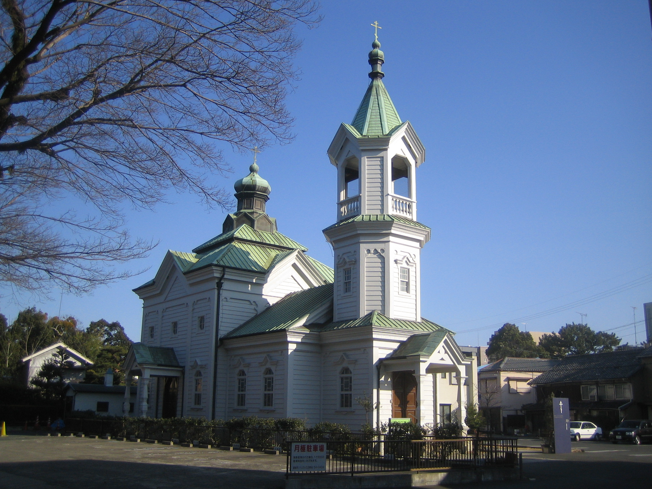 Toyohashi Orthodox Church (豊橋ハリストス正教会 Toyohashi Harisutosu Seikyōkai), located at Hacchodori, Toyohashi, Aichi, Japan